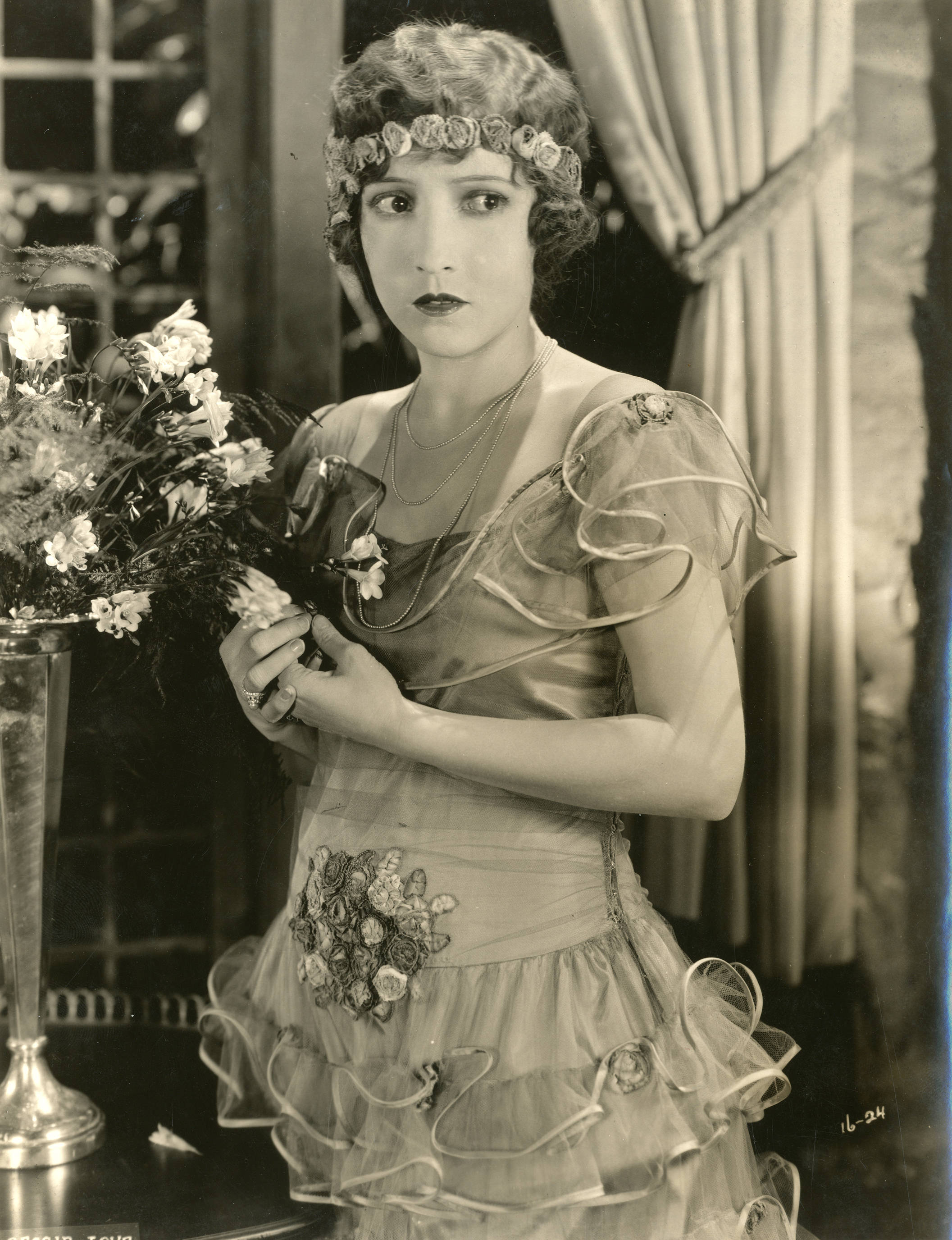 Bessie Love, silent film actress Subjects: actresses, motion pictures